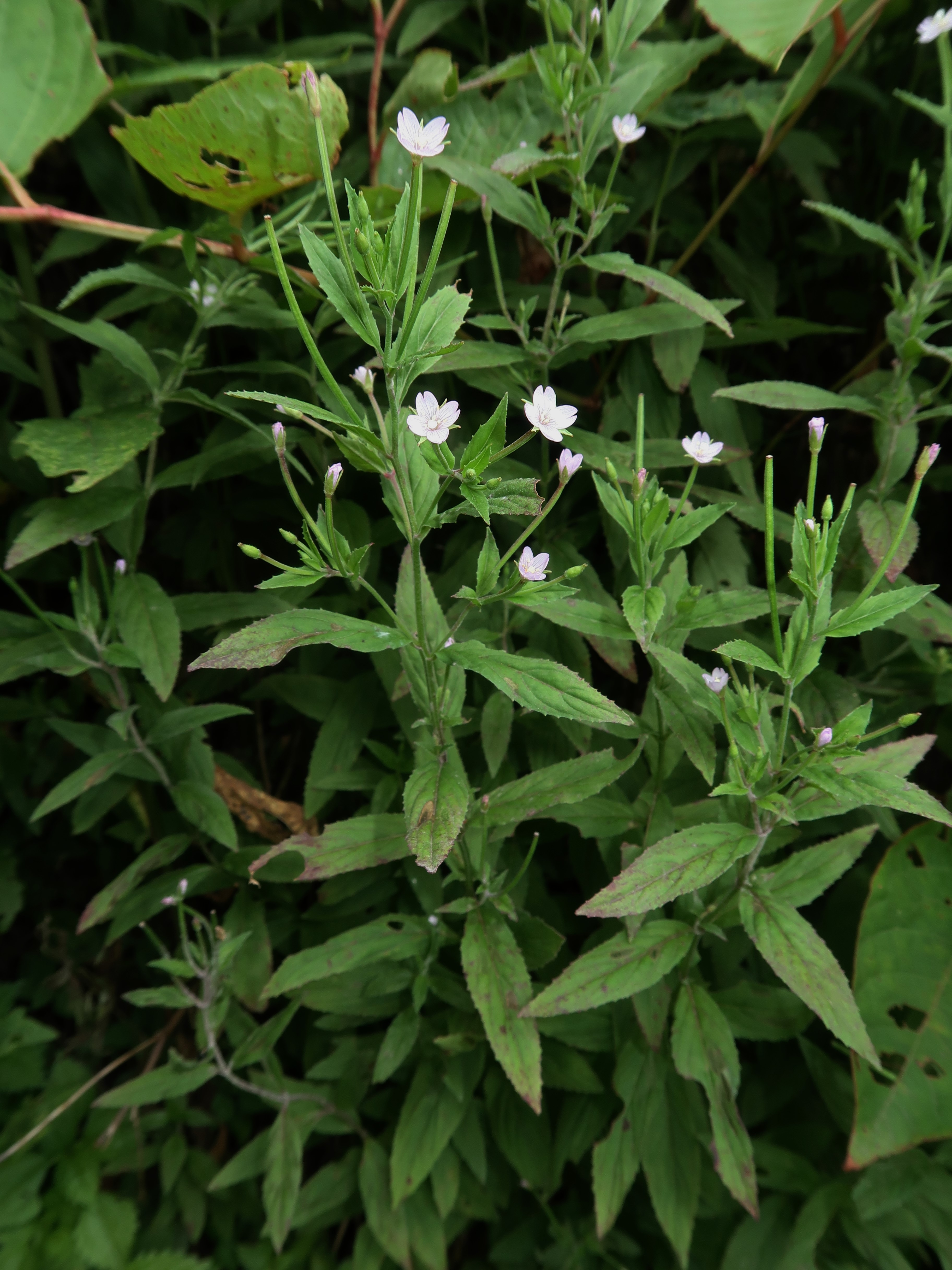 Epilobium amurense subsp. cephalostigma, Mount Bandai, Fukushima pref., Japan